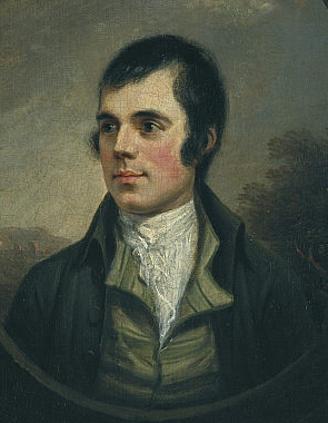 Scottish National Portrait Gallery: This half-length portrait of Burns, framed within an oval, has become the most well-known and widely reproduced image of the famous Scottish poet. Nasmyth's painting, commissioned by the publisher William Creech, was to be engraved for a new edition of Burn's poems. He is shown fashionably dressed against a landscape, evoking his rural background in Alloway, Ayrshire. Burns and Nasmyth had become good friends, having been introduced to one another in Edinburgh by a mutual patron, Patrick Miller of Dalswinton. Nasmyth, pleased to have recorded Burns' likeness convincingly, decided to leave the painting in a slightly unfinished state.